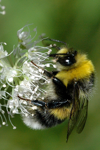 Bombus lucorum, male. Differences to Bombus ruderatus: Yellow hair at clypeus ('nose'). Yellow hair all over the rest of the bumblebee's 'face'/'head'. Black hair with more or less white tips. Identification according to Feldbestimmungsschlüssel für die Hummeln Österreichs, Deutschlands und der Schweiz (Dissertation of J. F. Gokcezade, Universität Wien, Vienna 09. January 2011, Austria, Austrian-German language); PDF-file online for download (confirmed at 08. June 2013), printed book available. Original description, James K. Lindsey, 2009: Bombus ruderatus from Commanster, Belgian High Ardennes .